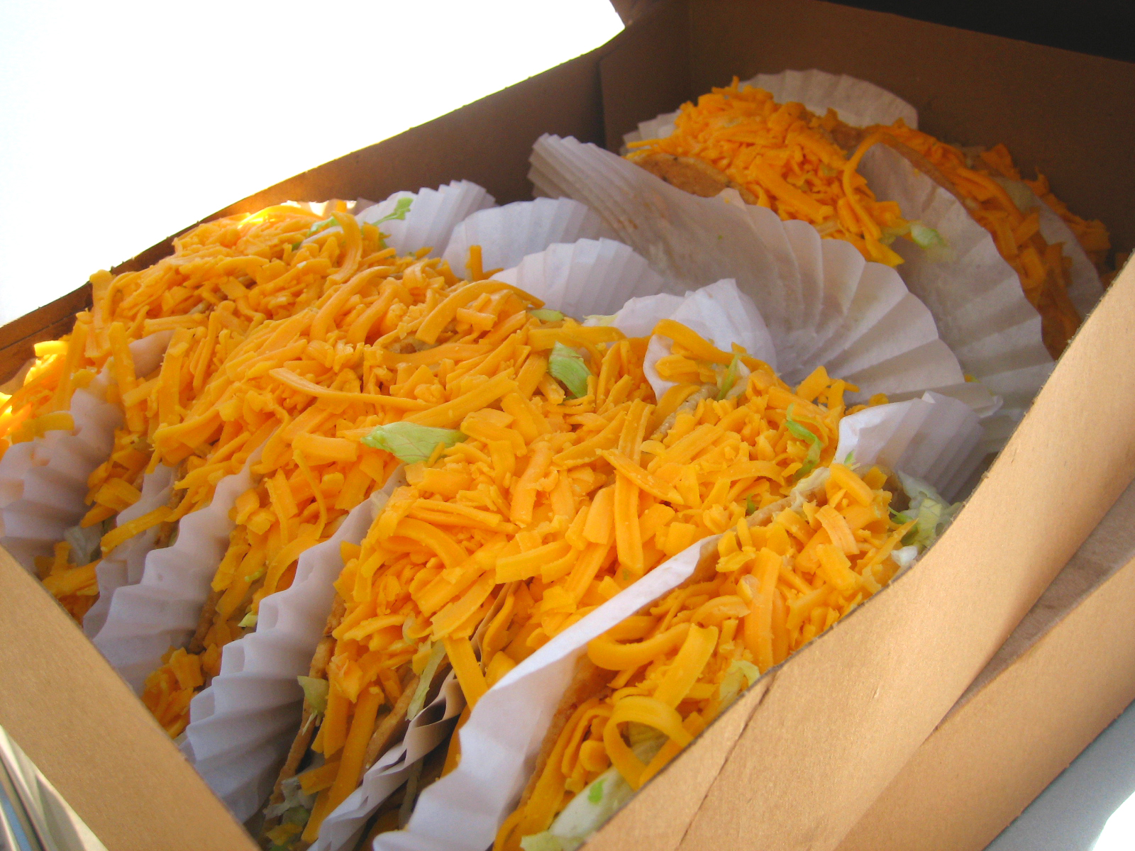 Tito's Tacos' hard-shell tacos, filled with shredded beef and topped with shredded iceberg lettuce and grated cheddar cheese. Culver City, California.